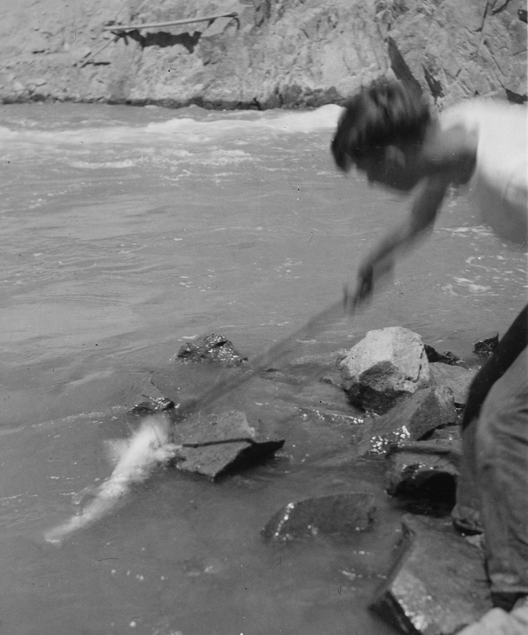 Description/Notes: Hauling 38 1/2 inch female chinook salmon from pool below Sunbeam Dam with gaff. Fish had been hooked by snagging. Original Collection: Pacific Northwest Stream Survey Collection Item Number: Album2 pg.30 Image 3 You can find this image by searching for the item number by clicking Want more? You can find more We're happy for you to share this digital image within the spirit of The Commons; however, certain restrictions on high quality reproductions of the original physical version may apply. To read more about what “no known restrictions” means, please visit the or contact staff at the OSU Special Collections & Archives Research Center for details.